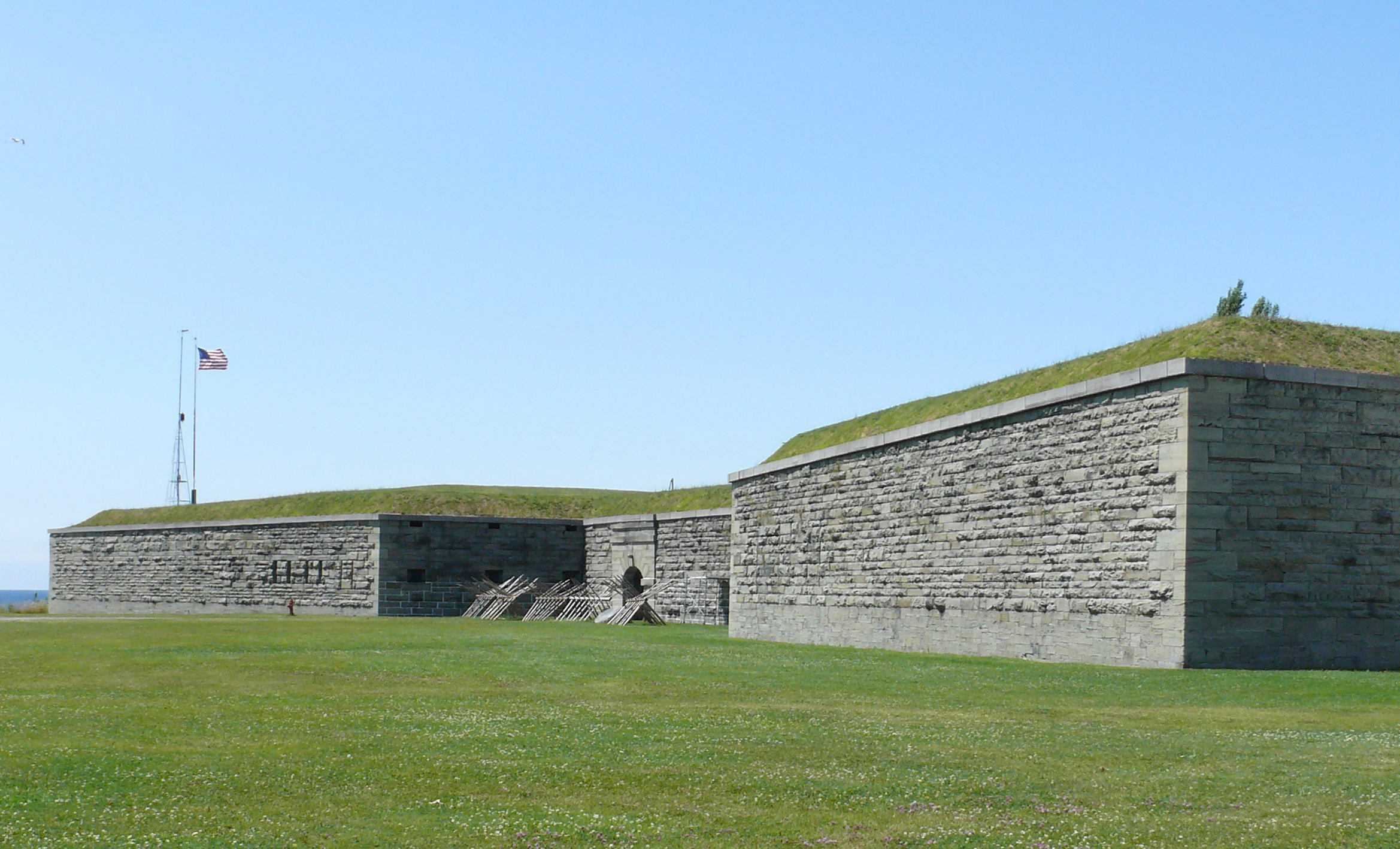 Fort Ontario is an historic fort situated by the city of Oswego, New York. Fort Ontario is een historische vesting gelegen bij Oswego, New York.